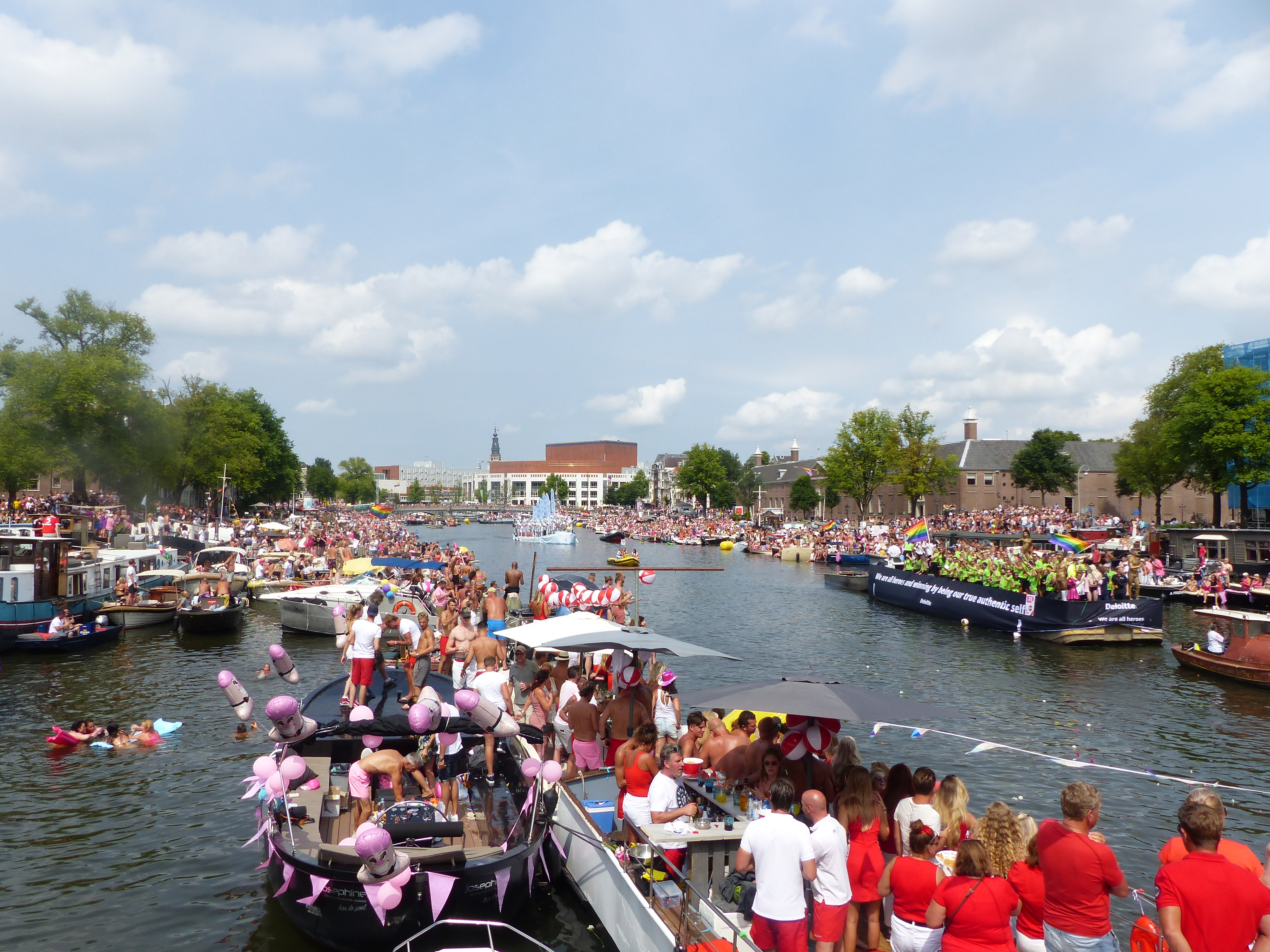 Amsterdam Pride 2018. Taken on the 4th of August, 2018. Taken from the left side of the Magere Brug, (looking to Blauwe Brug). Amsterdam, the Kingdom of the Netherlands.